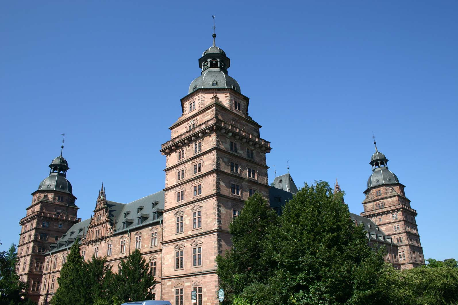 Schloss Johannisburg is a castle in Aschaffenburg, Germany, that was erected between 1605 and 1614 by Georg Ridinger. Until 1803, it was the second residence of the prince bishop of Mainz. It is constructed of red sandstone, the typical building material of the area around Aschaffenburg.